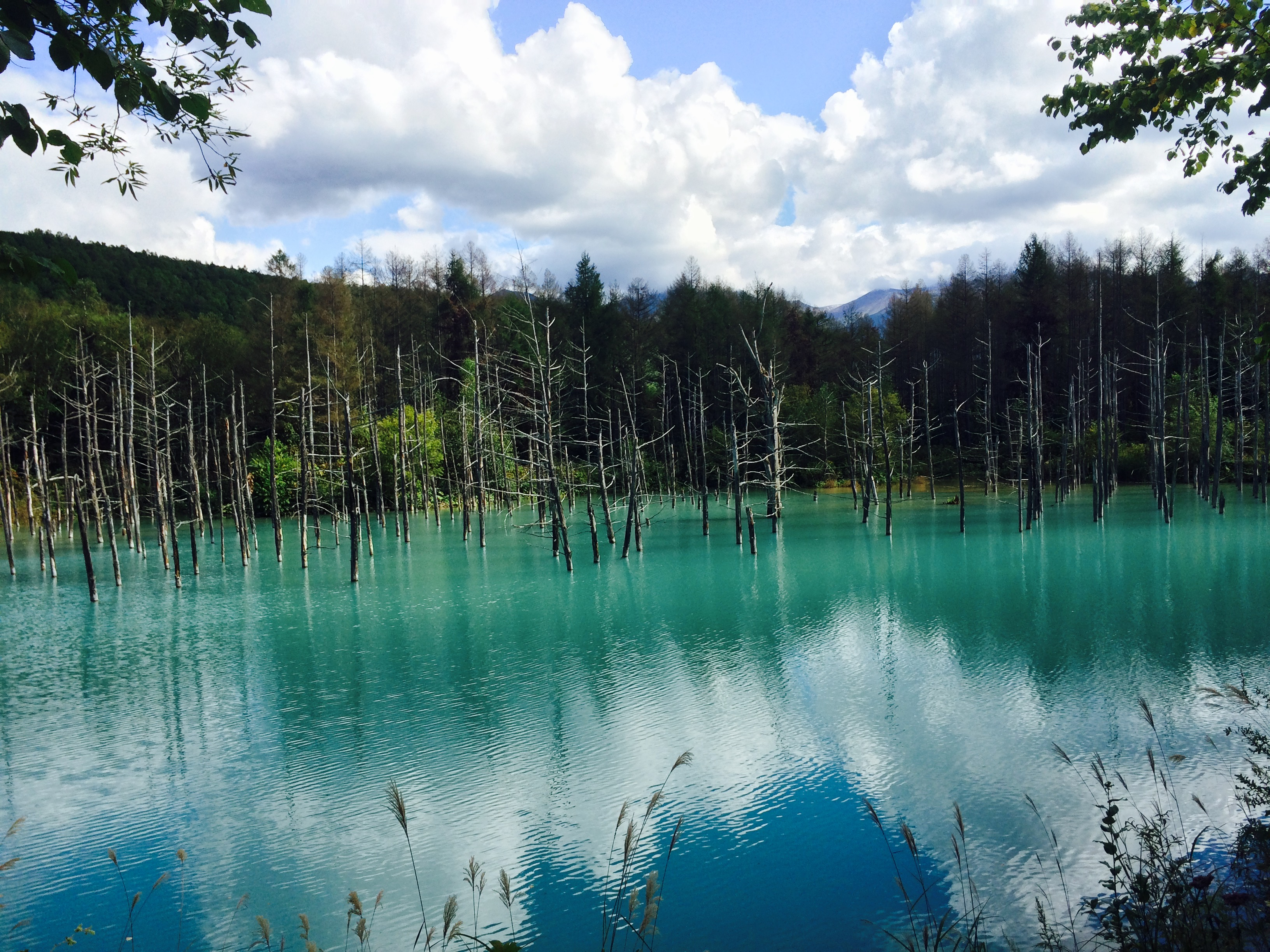 Shirogane Blue Pond in Biei, Hokkaido, Japan.